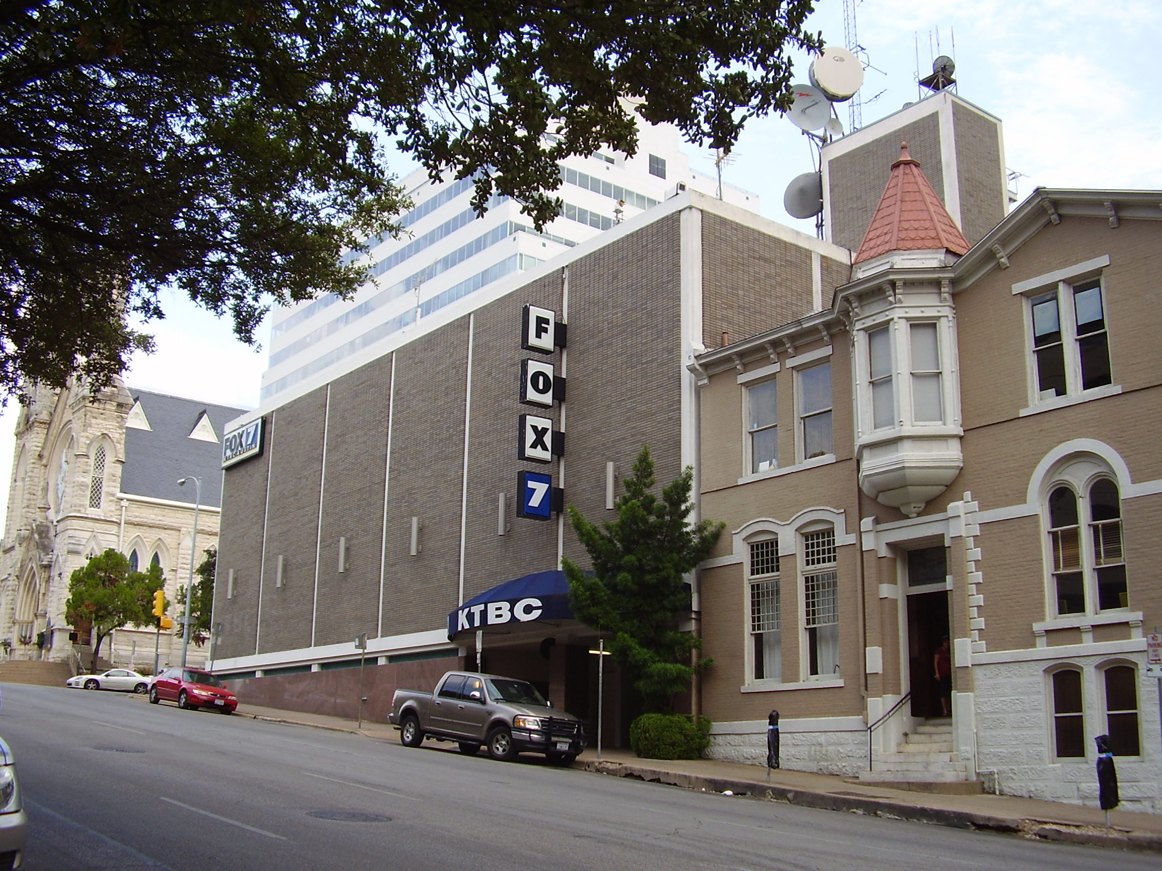 KTBC (FOX 7) studios, Austin, Texas, United States